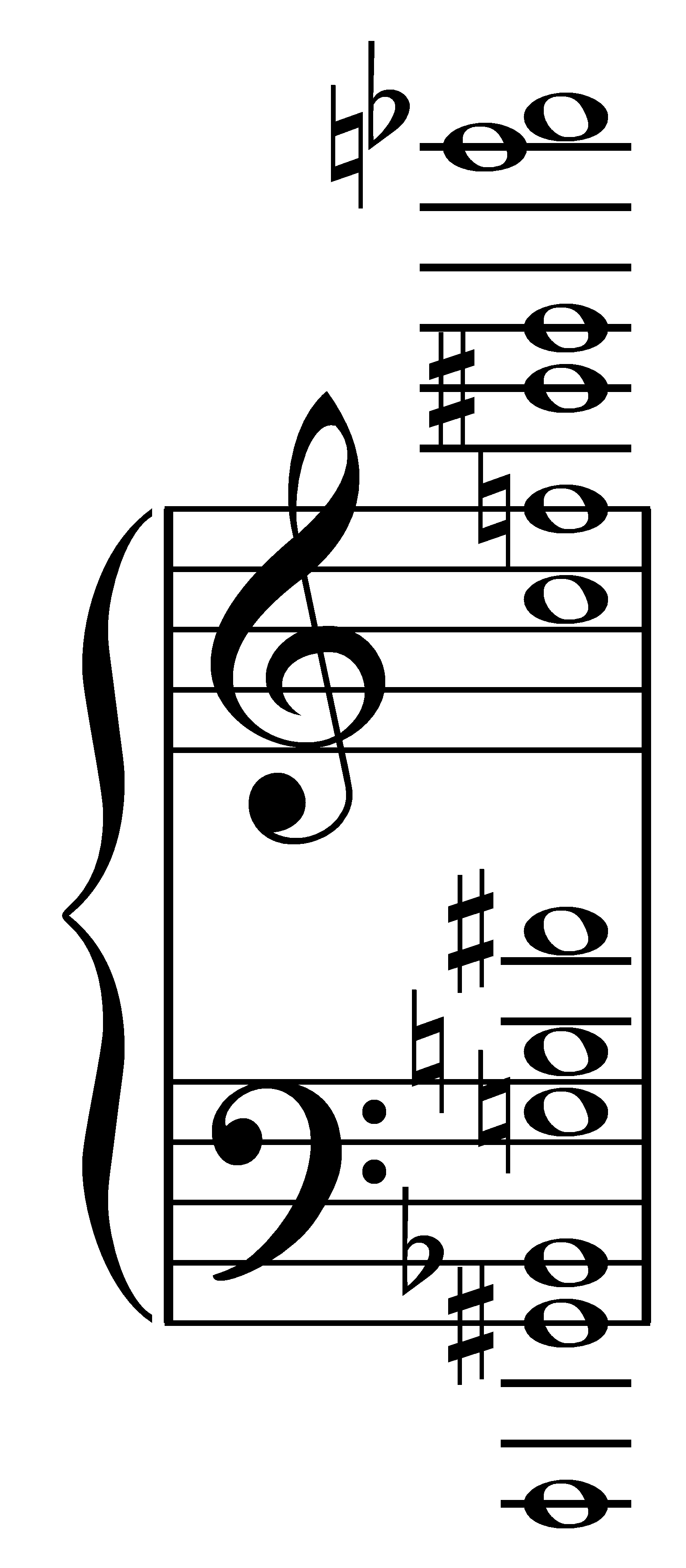 Grandmother chord (Grossmutterakkord), first used by Nicolas Slonimsky: 0 e 1 t 2 9 3 8 4 7 5 6.